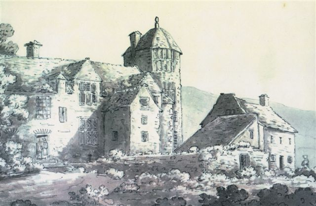 Sir Richard Colt-Hoare, 1811, hand-drawn Sepia, copyright expired. Currently posted to, noting copyright status